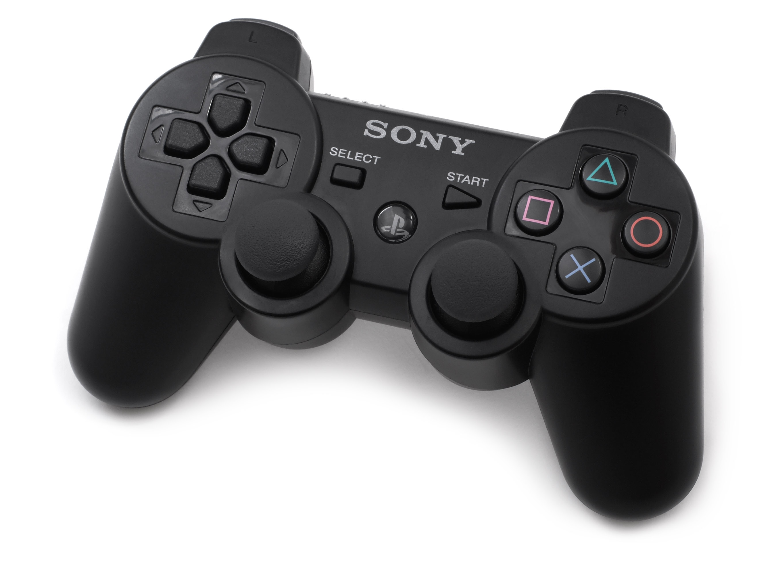 A black Sony DualShock 3 controller for the PlayStation 3, which became the standard pack-in after replacing the SIXAXIS controller.